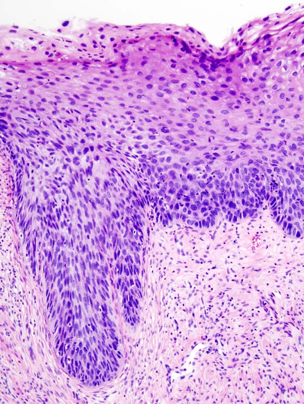 Histopathologic image of cervical intraepithelial neoplasia (CIN3). H & E stain.